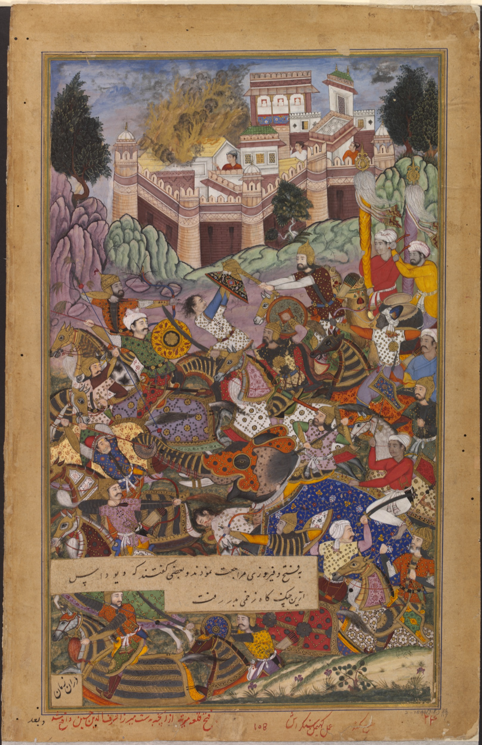 The capture of Fort Mirtha near Jodhpur in north-west India, seen in flames in the background, by Mughal forces led by Mirza Sharaf ud-Din Husain in 1561